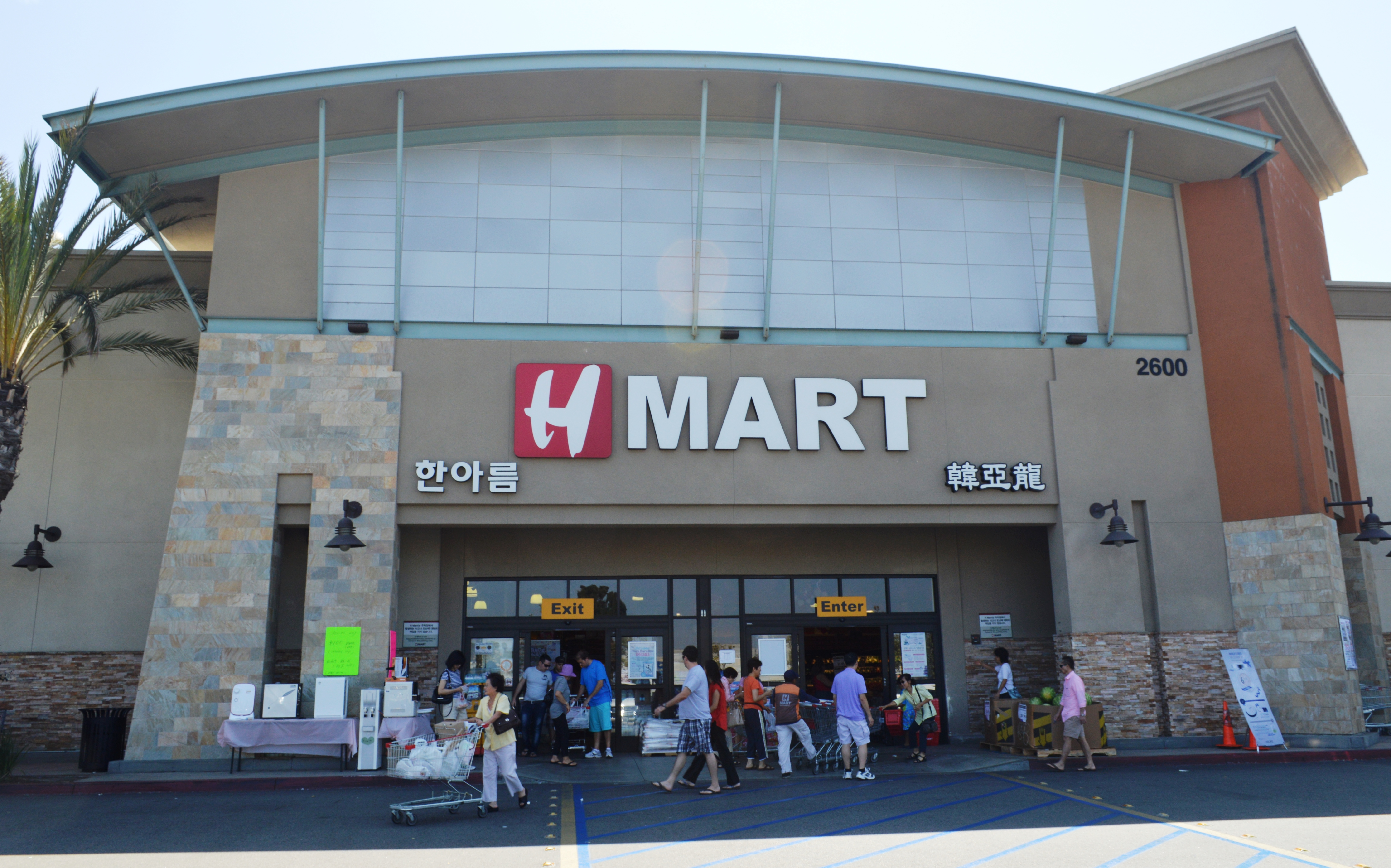 H Mart (Korean supermarket) at Diamond Jamboree Center in Irvine, California.